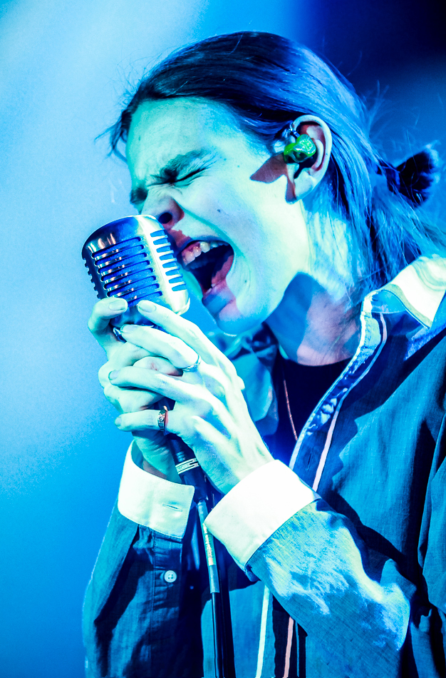 Ari Koivunen, the vocalist of Amoral, 28.2.2014 at Virgin Oil in Helsinki.